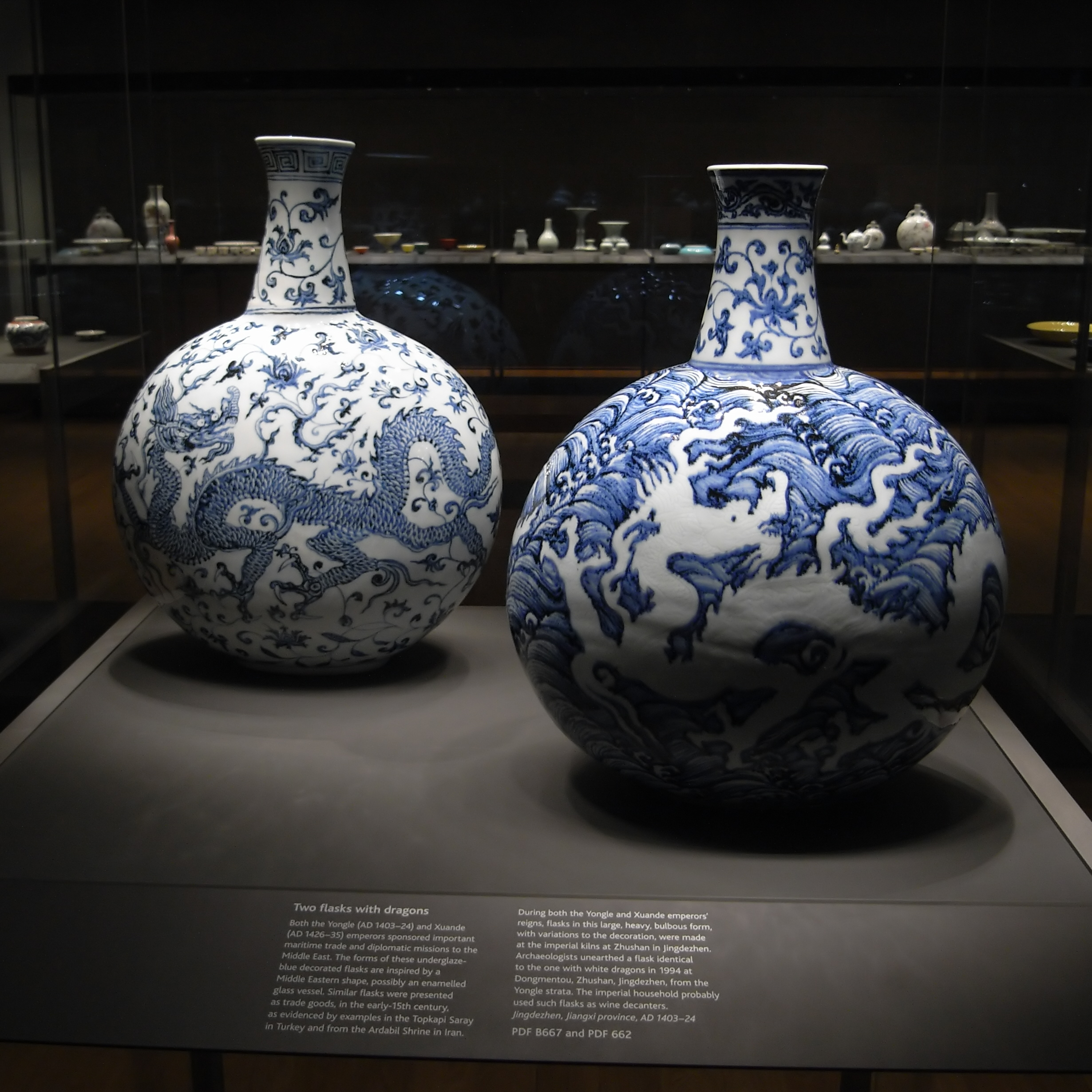 These are two large porcelain flask in the form of bianhu. The left flask has a underglaze that depicts a large three-clawed dragon among scrolling lotus, similar scrolling lotus on the neck, and squared spirals at the rim. The right flask has a underglaze that depicts a three-clawed dragon in reserve against a background of waves in underglaze cobalt blue on the exterior, a wide band of scrolling lotus flowers on the neck, and scrolling lotus leaves below the mouth rim.